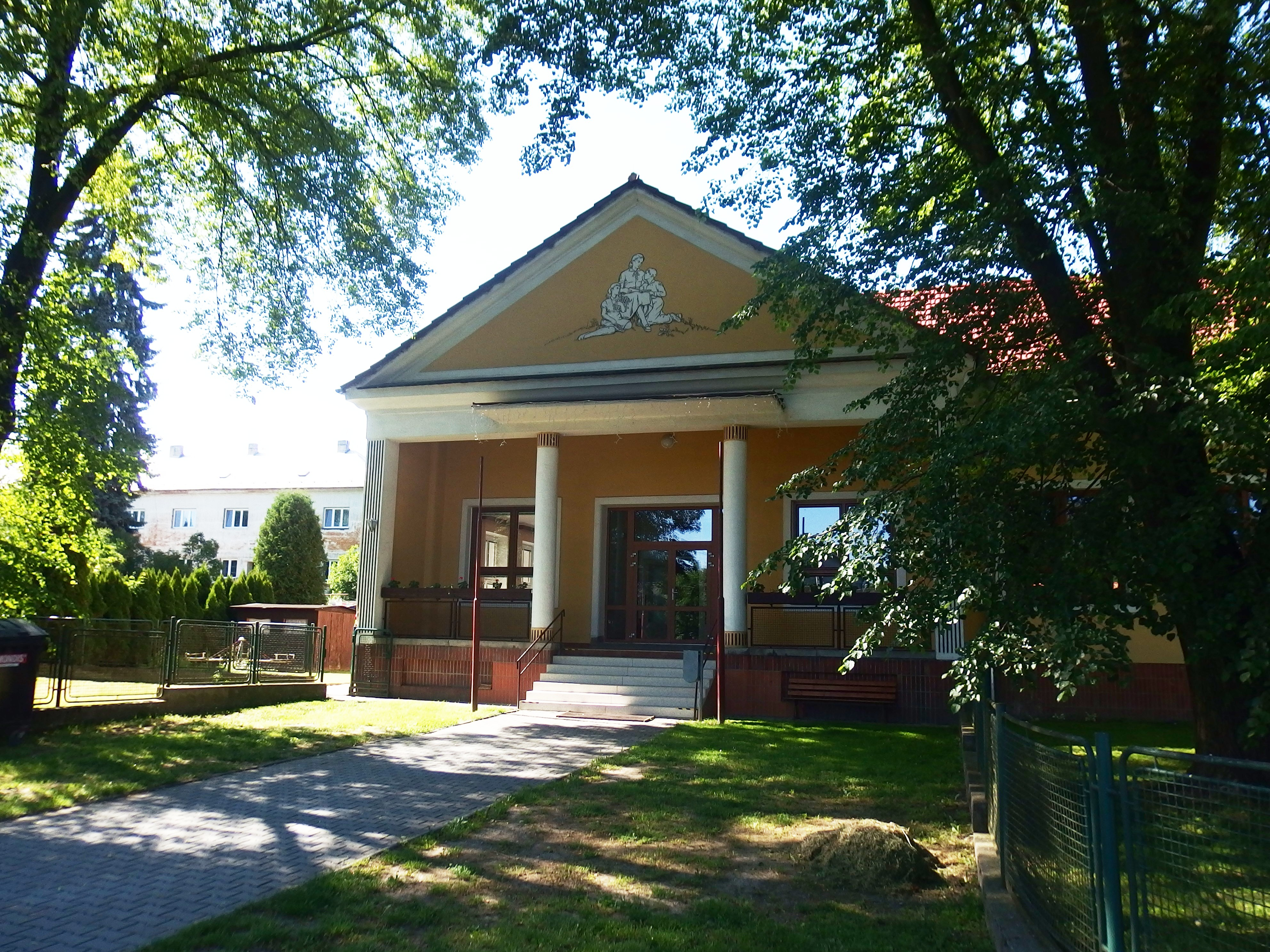 Bartošovice, Nový Jičín District, Czech Republic, part Hukovice.